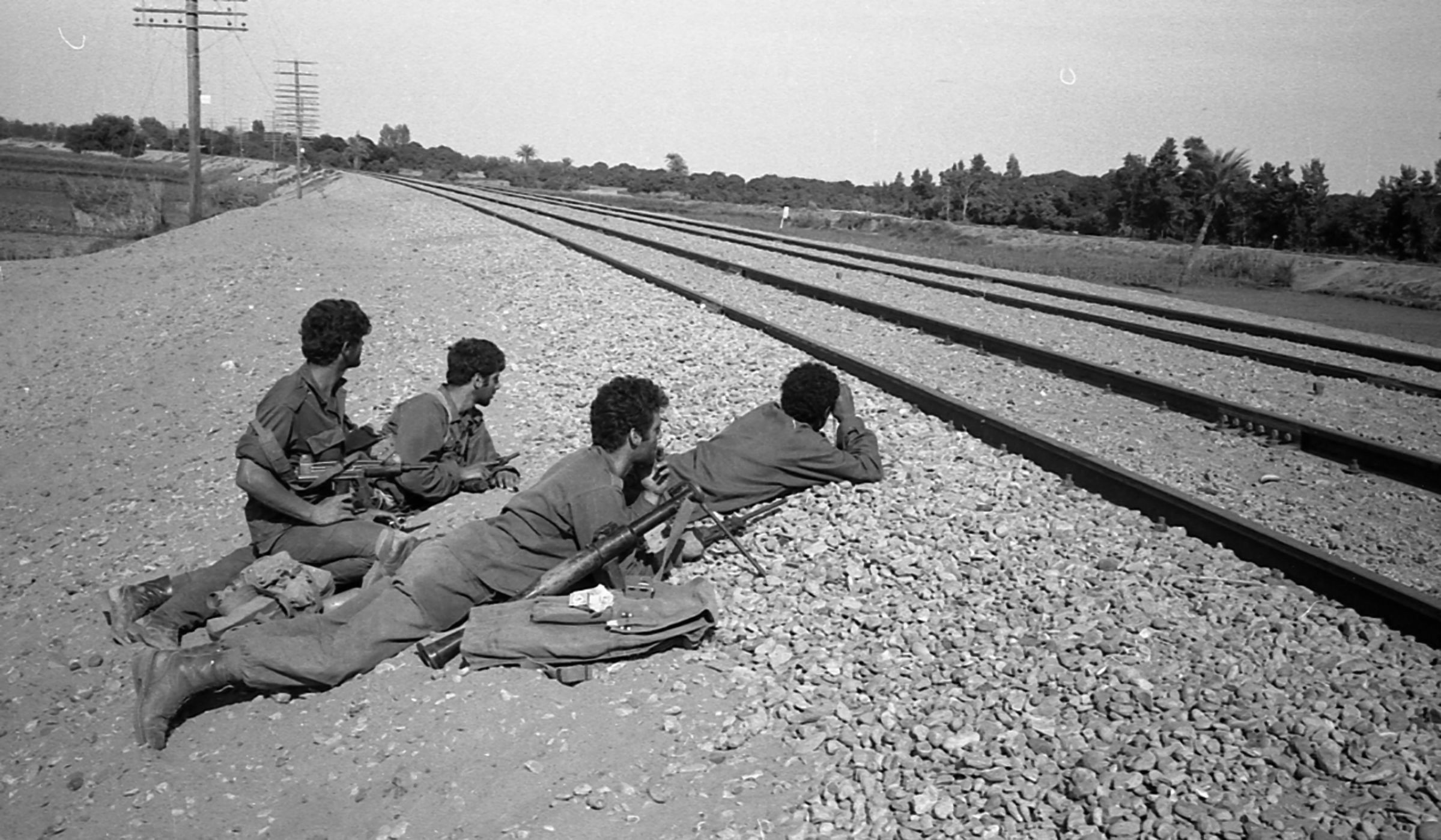 IDF soldiers clash with Egyptian As-Saeqa during the Battle of Ismailia.